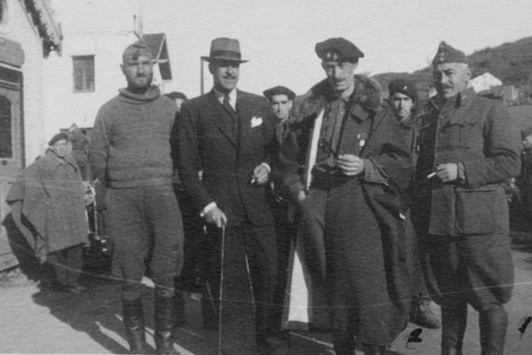 Nationalist officers in Vergara, 1937